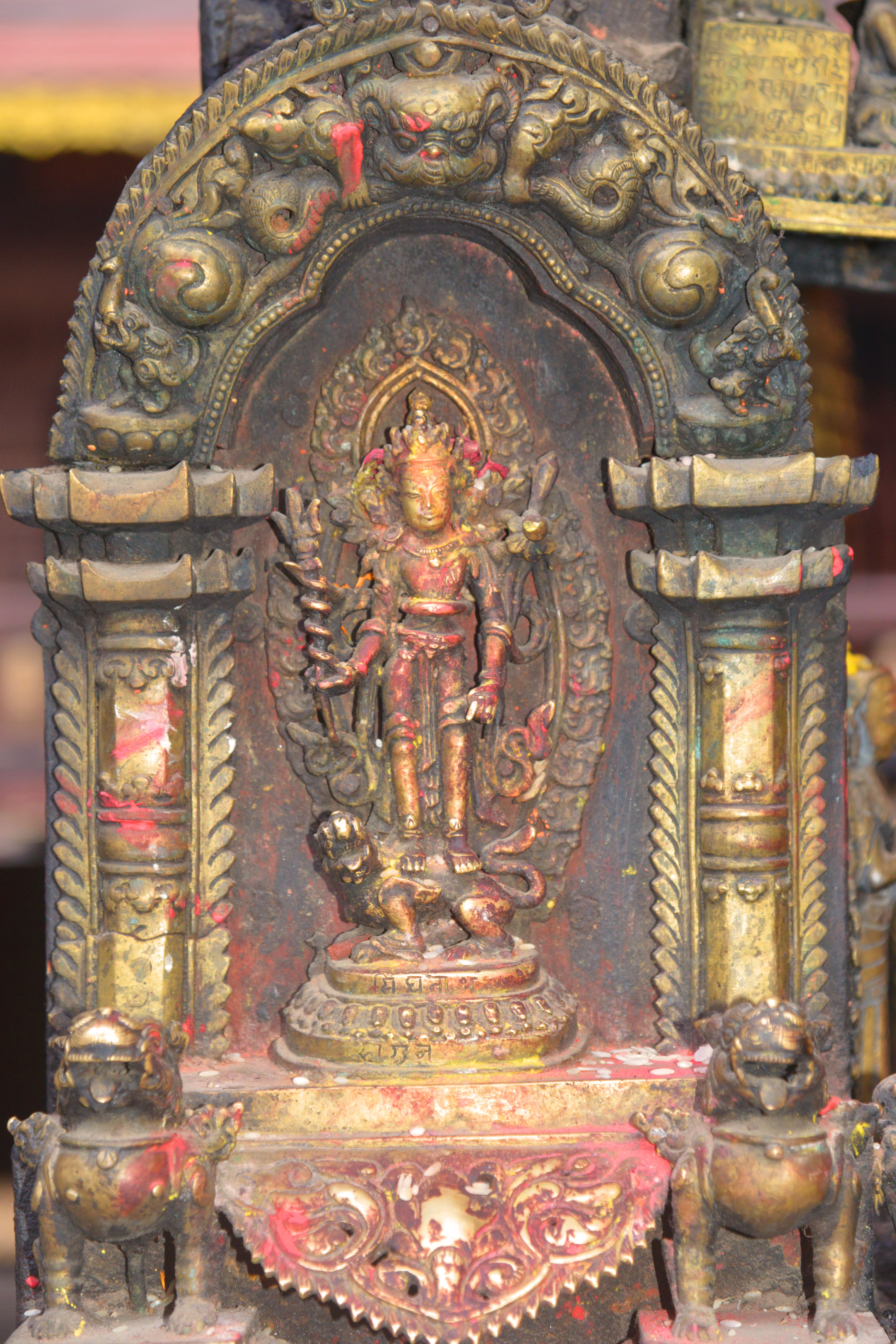 image of standing Siṃhanāda Avalokiteśvara in the in the Hiranya Varna Mahavihar (Golden Temple), Patan, Lalitpur, Nepal